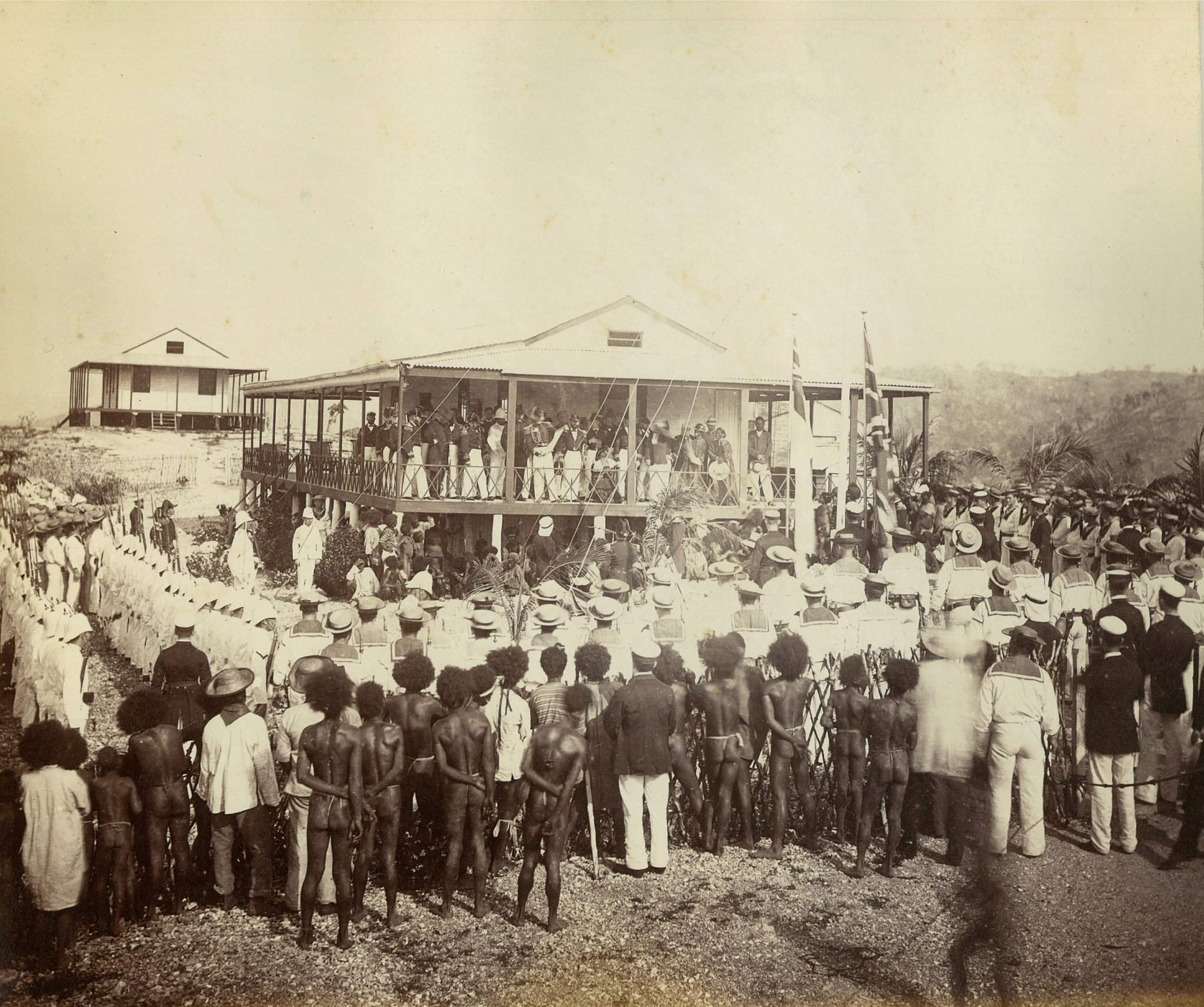 In 1883, the colony of Queensland, now a state of Australia, annexed the south-east of the island of New Guinea, in response to the German annexation of the north-east. The British Government revoked the annexation and annexed it themselves as part of the British Empire, the Papuans having no say in the politics between the two. Little more than twenty years later, the German light cruiser Emden, which protected Germany's interests in the South Pacific, was sunk by the cruiser HMAS Sydney of the new Australian Navy. Format: Photograph Find more detailed information about this photograph: .au/item/itemDetailPaged.aspx?itemID=931235 Search for more great images in the State Library's collections: .au/search/SimpleSearch.aspx From the collection of the State Library of New South Wales